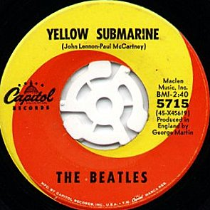 Capitol Records 45rpm record label for USA release of the Beatles' "Yellow Submarine. Original issue, 1966.